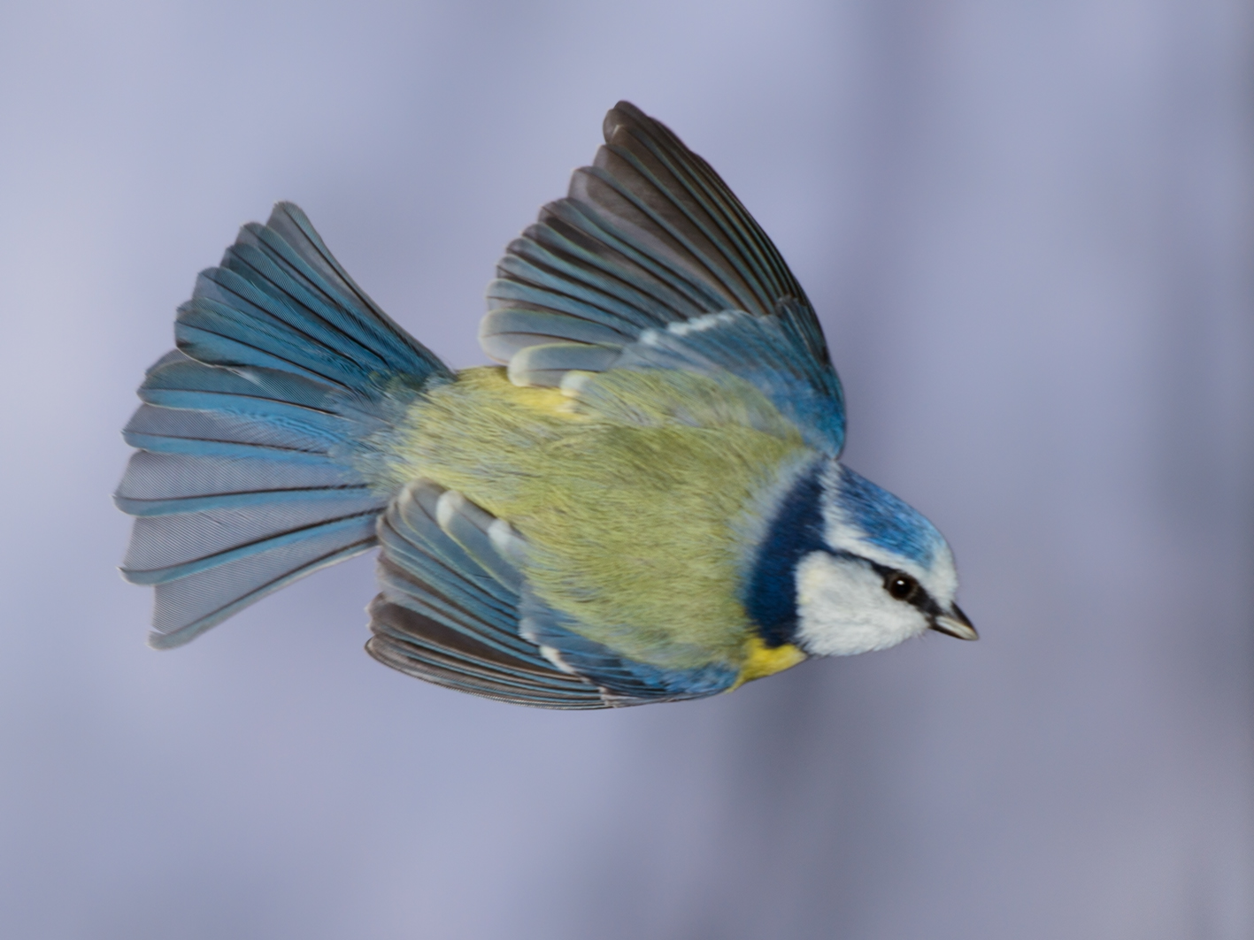 Blue Tit in flight Quantuum Flash @ 1/10000 Timing PhotoTrigger Light Sensor